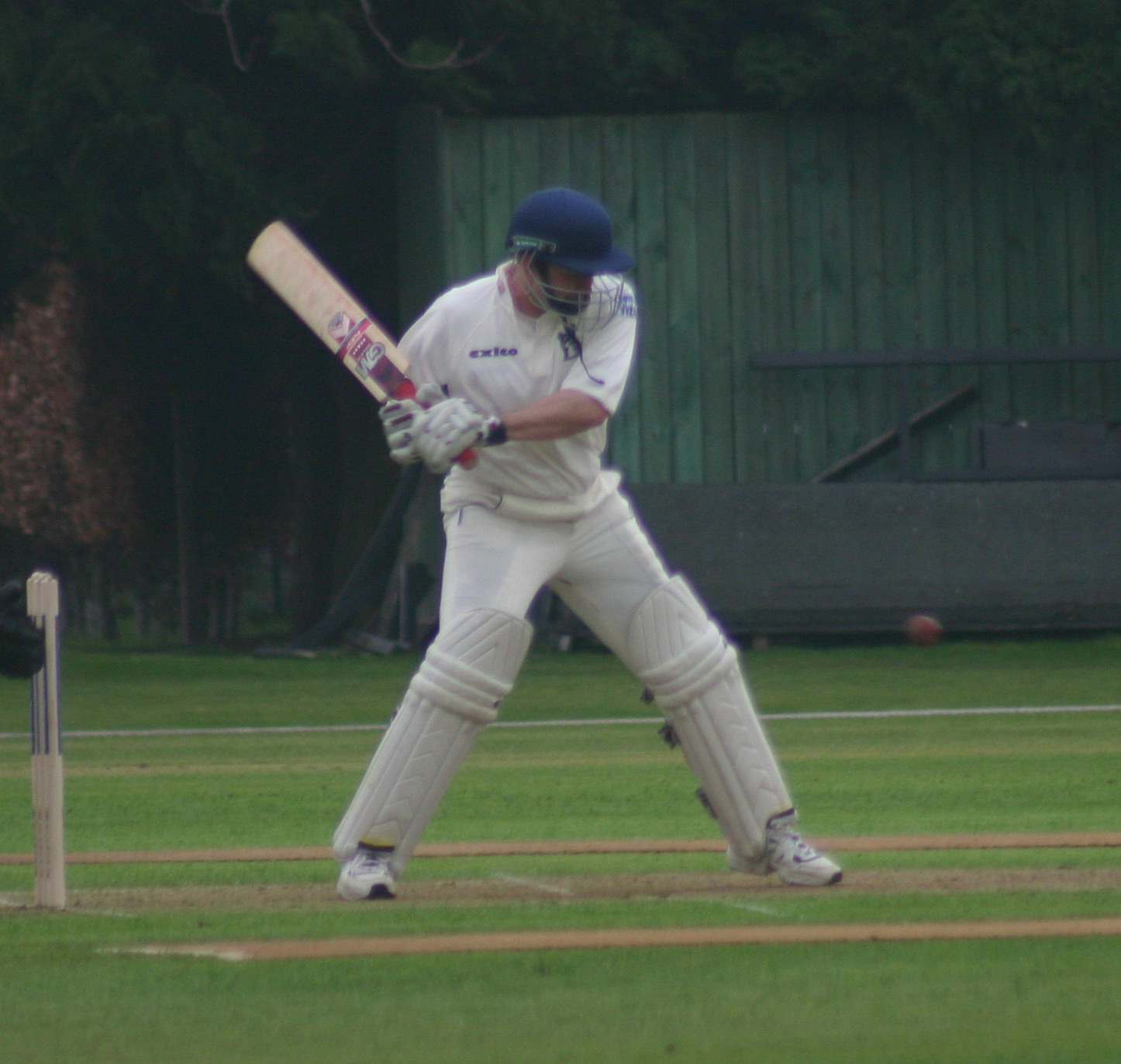 Mike Powell batting for Warwickshire against Cambridge UCCE, at Fenner's cricket ground in Cambridge, 15 April, 2006. Photograph taken by Stephen Turner and released under the GFDL.